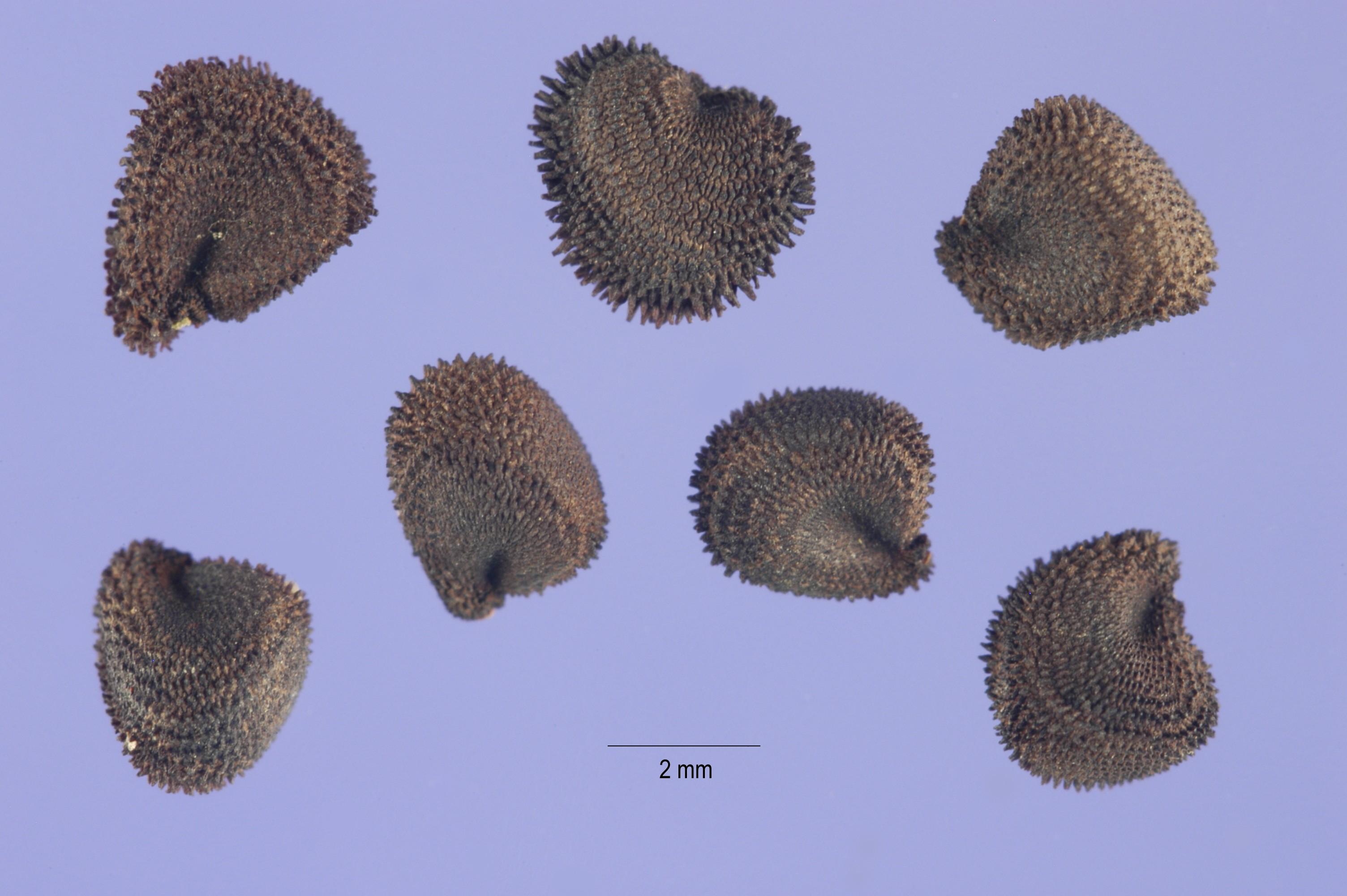 Common Corncockle. Seeds from Turkey.